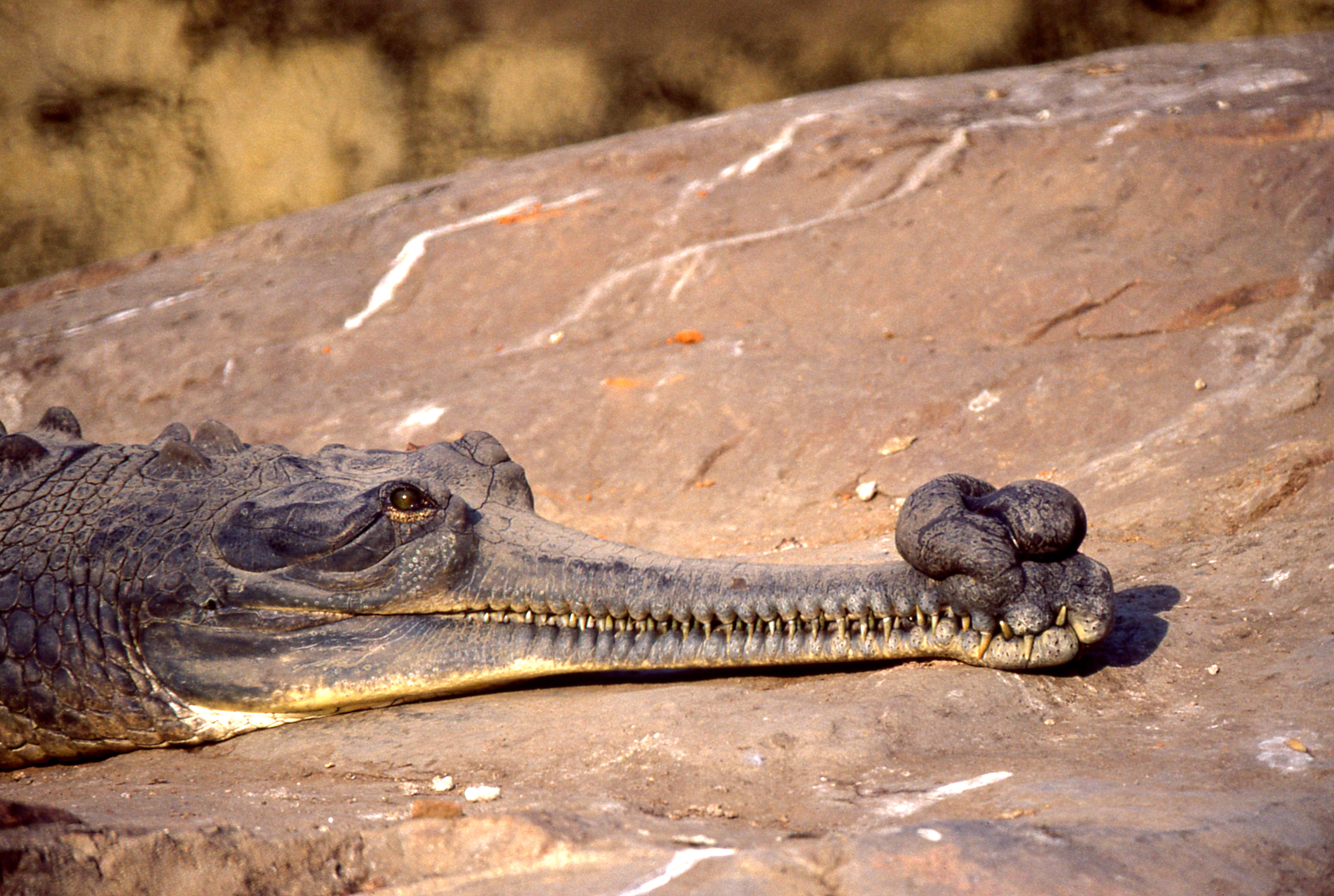 Chambal Gardens, Kota, Rajasthan, INDIA Scanned Slide from March 1991